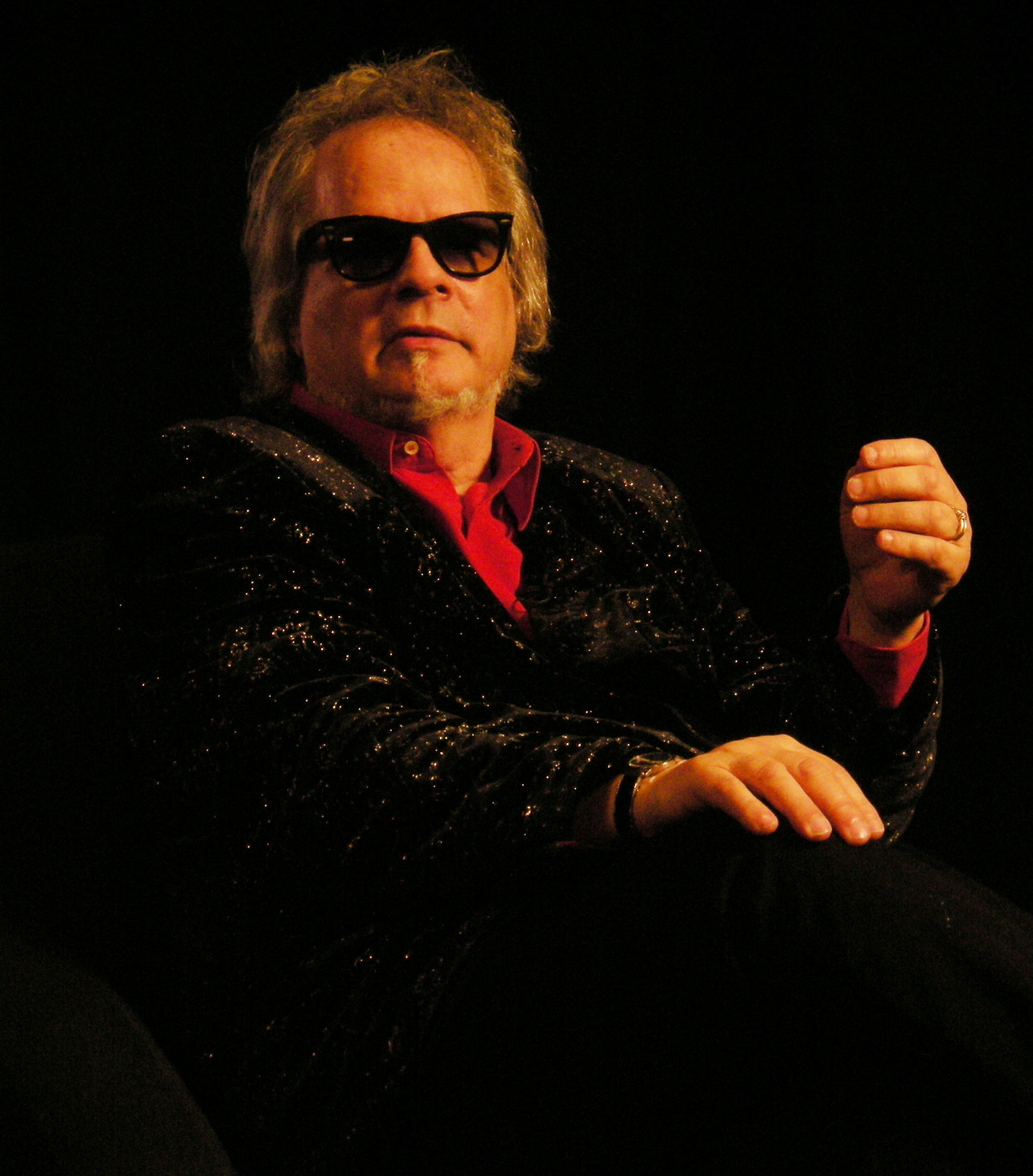 Al Kooper being interviewed as part of the "Sound + Vision" series at Experience Music Project, Seattle, Washington.